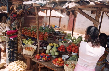 Vegetables for sale in a local market in Dinguiraye Prefecture, Guinea